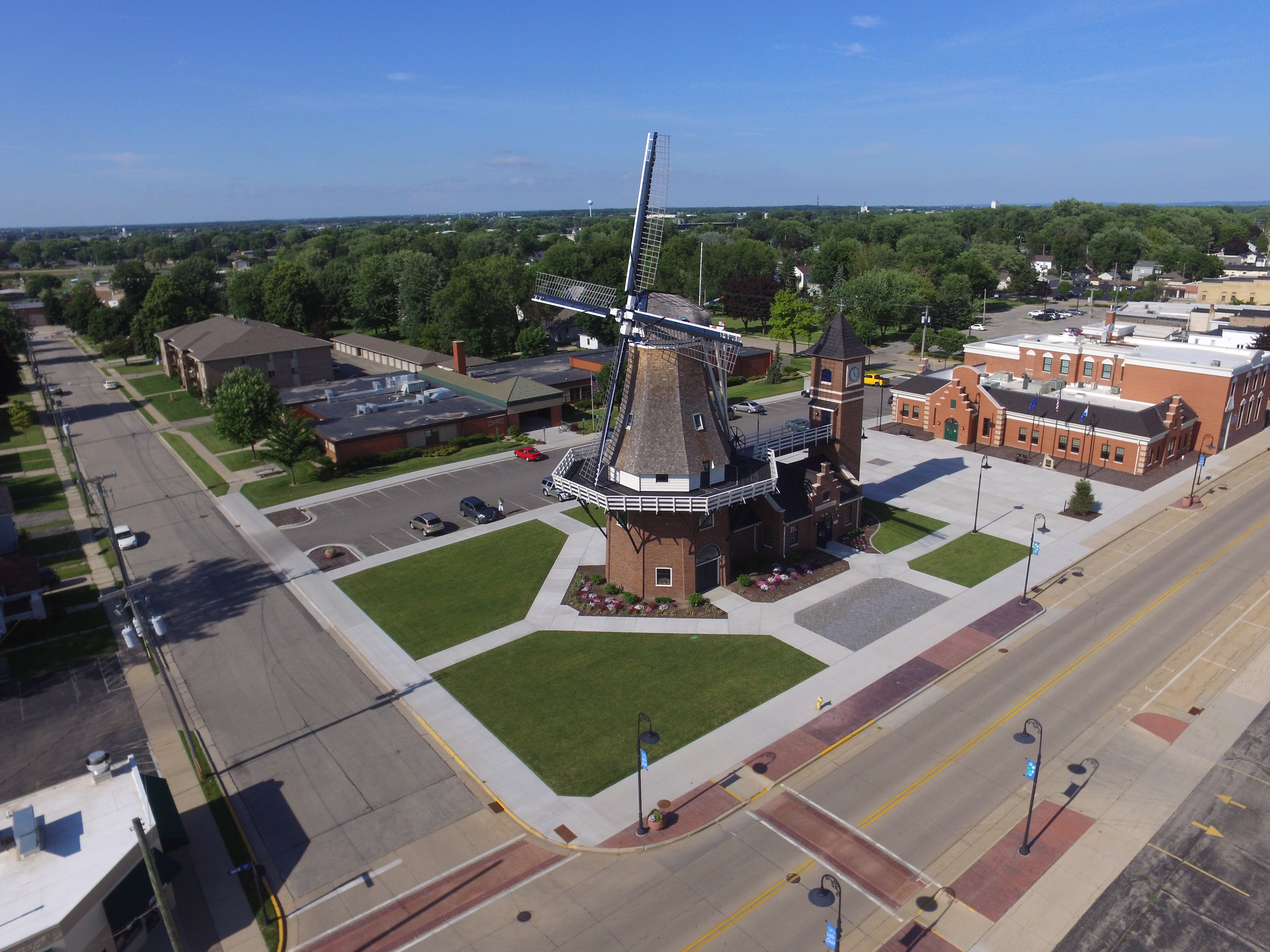 An aerial photo of the Little Chute windmill located in Little Chute, WI.